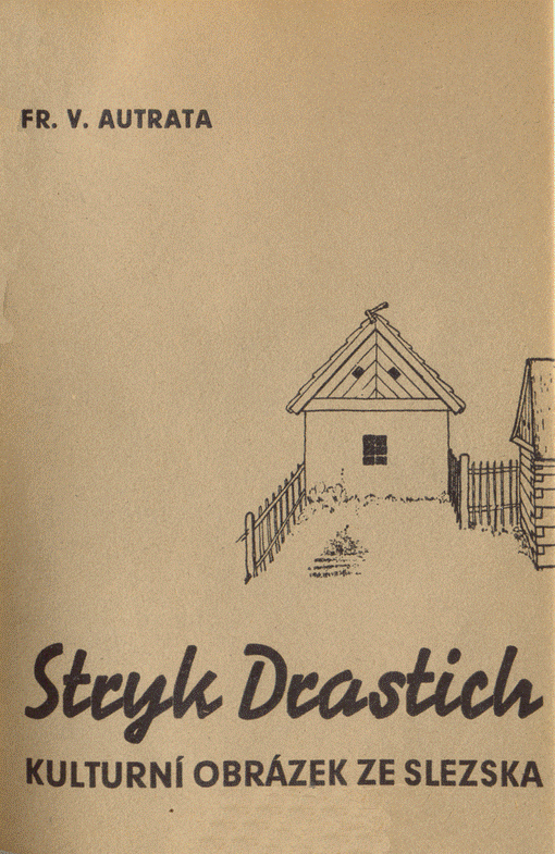 František Autrata: Stryk Drastich (cover page, 1935)